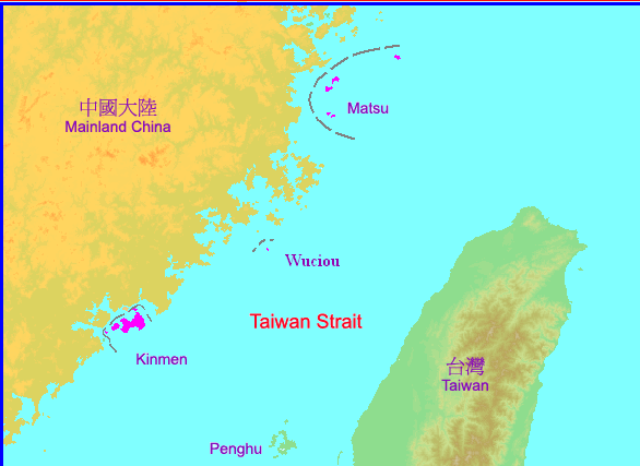 Location of Kinmen, Matsu and Wuciou, based upon MainlandChina.png by Alan Mak